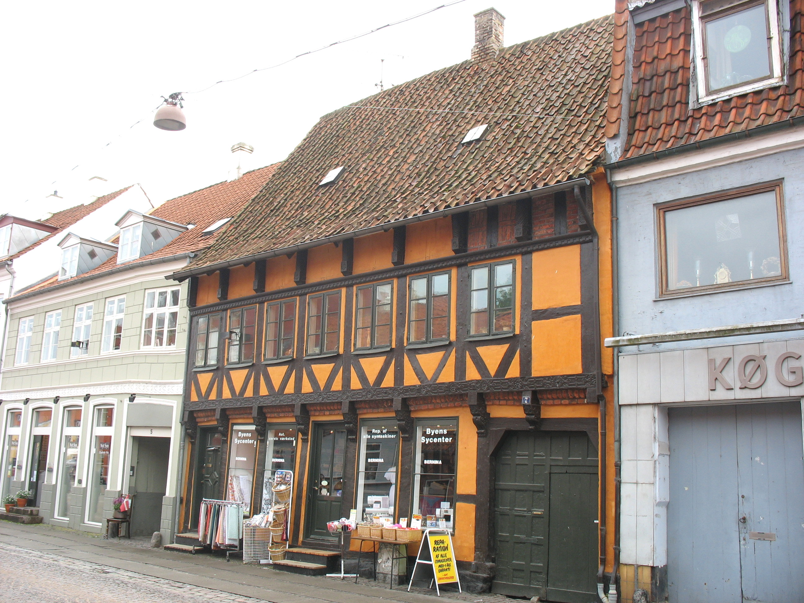 The old tannery "Garvergården" in the town "Køge". The place is located in Middle Zealand in east Denmark.